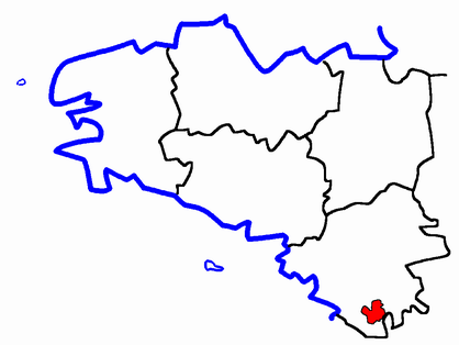 Description: Map for localisazion of cantons of Pays-de-Loire, region in France Source: made by Hervé Tigier in april 2005 from another large map (published in 1990)